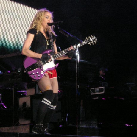 Madonna performing "Borderline" during her S&S Tour